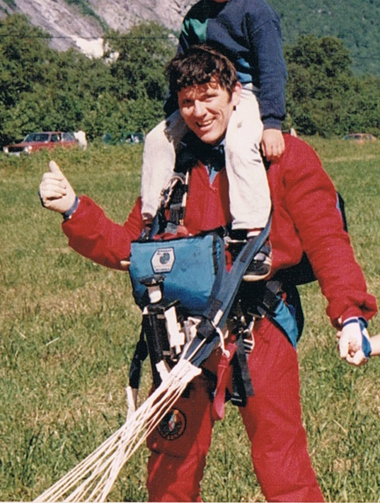 BASE jumper Carl Boenish after successful jump in Romsdalen, July 1984 (he died jumping the day after). Cropped image - removed identifiable 3rd persons